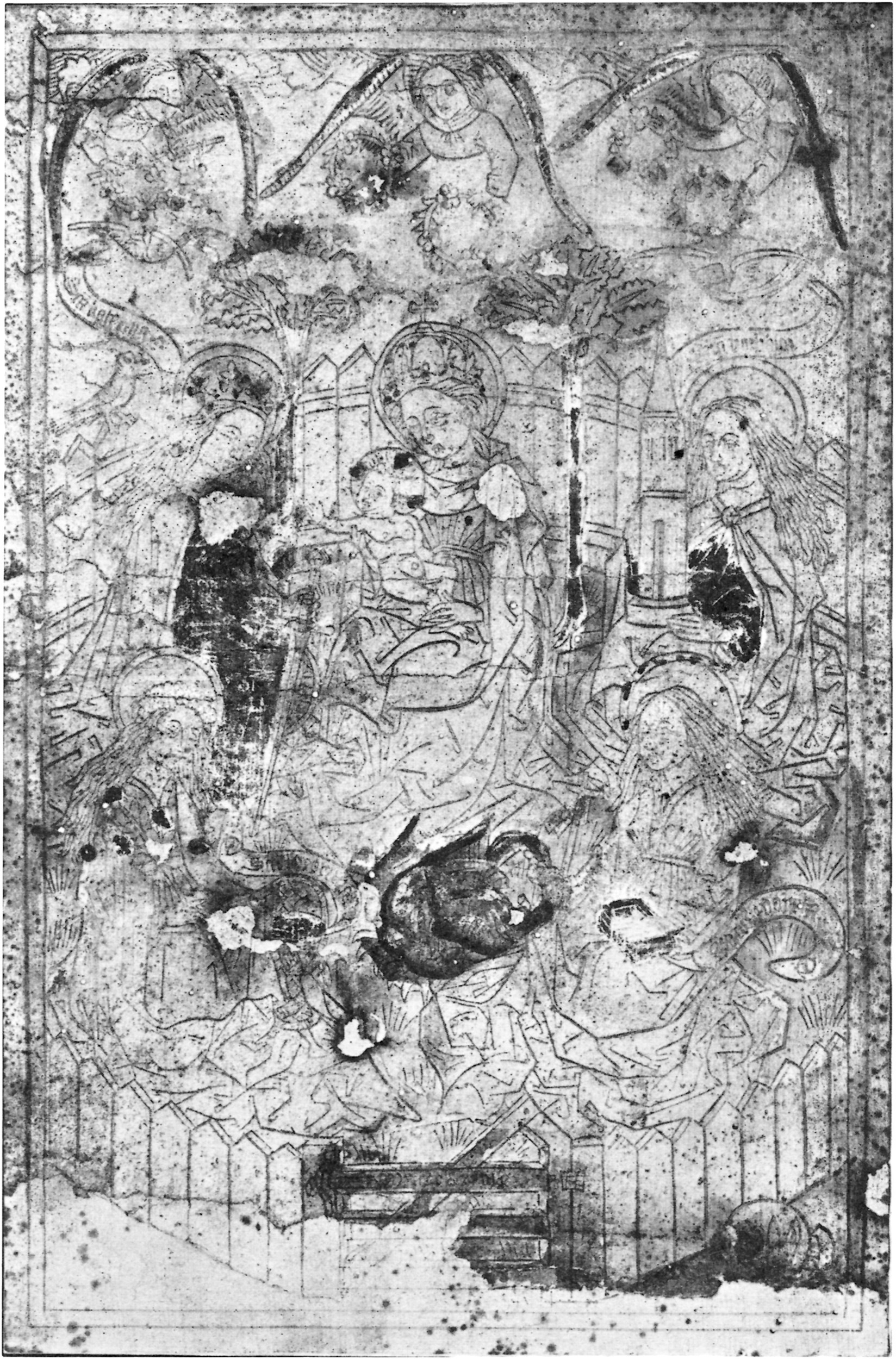 The Brussels Madonna, showing the Virgin and Christ child with the four virgin-martyr saints in an enclosed garden. This was once thought to be the earliest dated woodcut print, which is held in the Bibliothèque Royale de Belgique. The date has been questioned, and the print is thought to be from around 1460. The cult of the Quatuor Virgines Capitales was popular in the 15th century, and depictions were common. Clockwise from top-left: Catherine of Alexandria, with the executioner's sword and fragment of the torture wheel; Virgin Mary with Christ child; Barbara with three-windowed tower; Margaret of Antioch, with her crucifix and slain dragon; and Dorothea, with her crown of roses, roses in hand, and basket of roses.